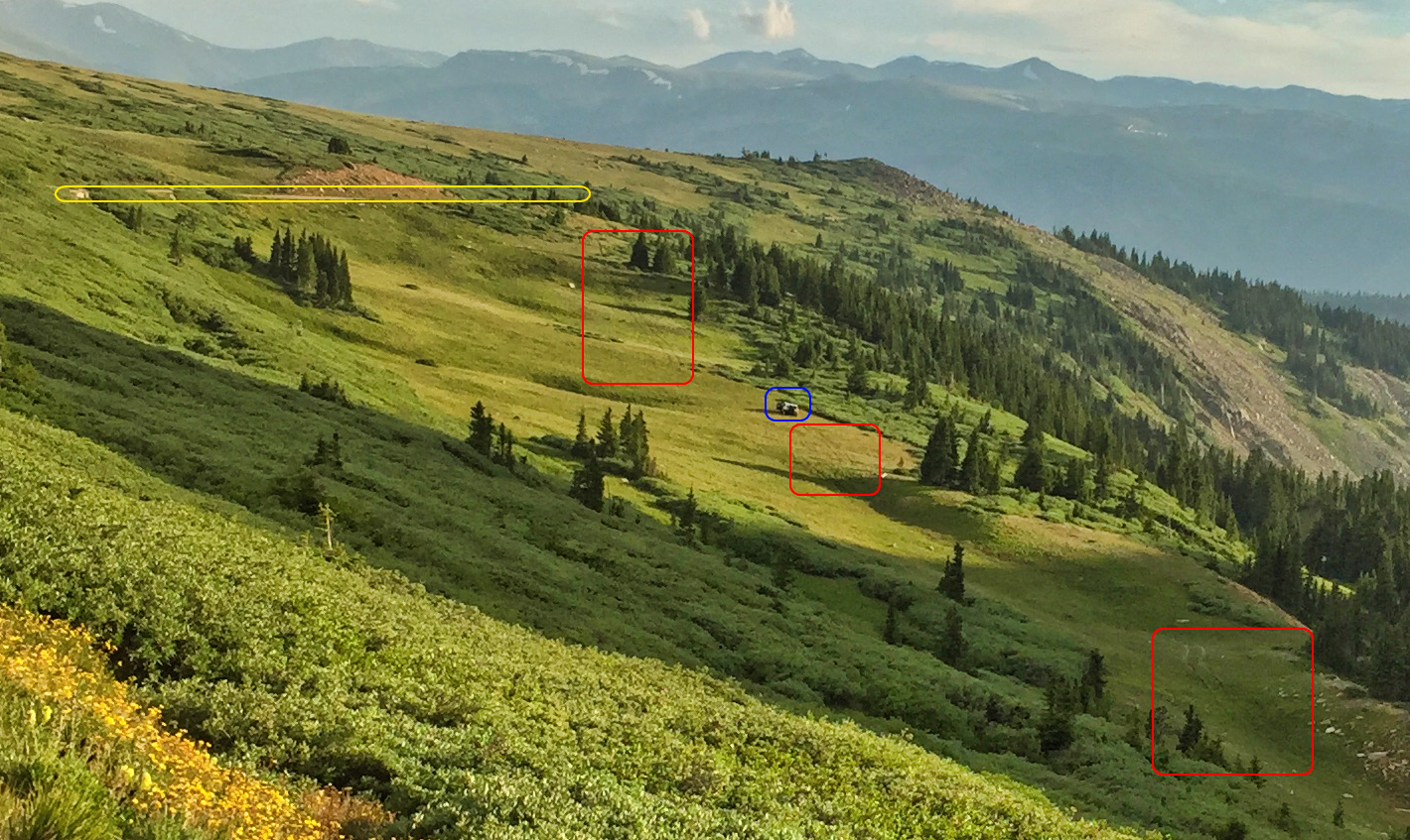 Alpine Tundra Damage on Rollins Pass by a Motorized Vehicle